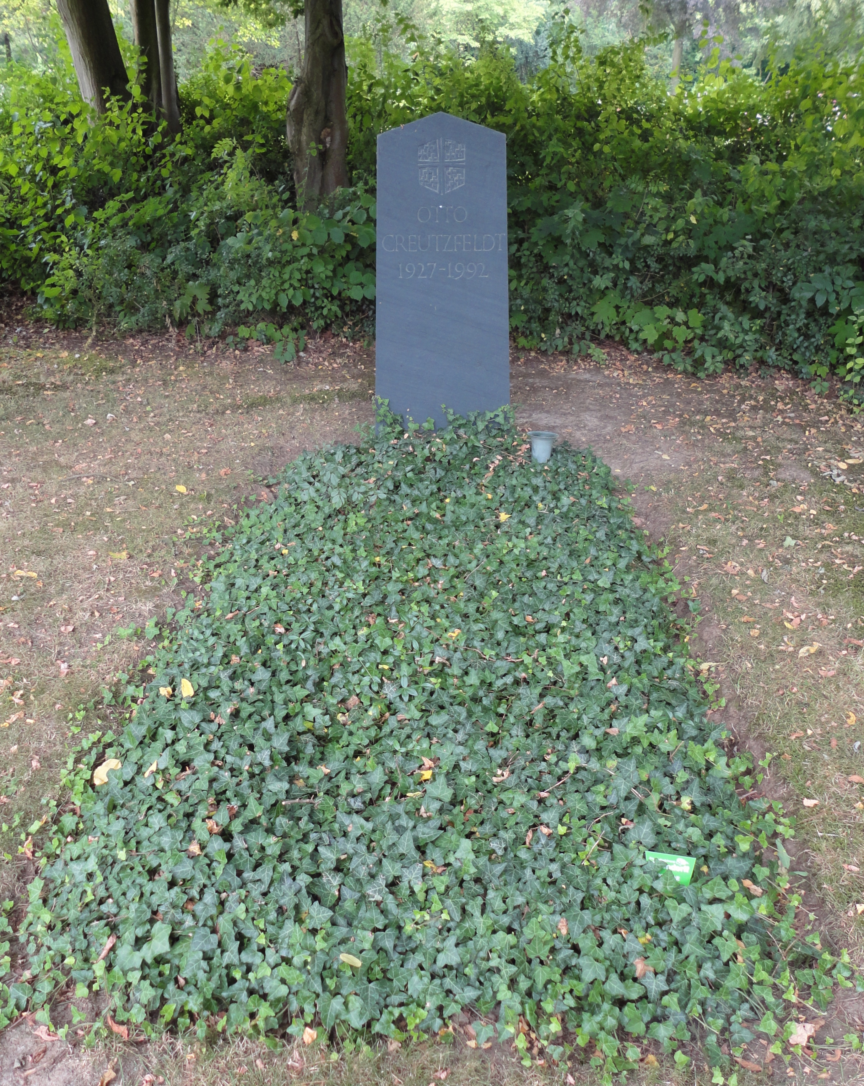 Parkfriedhof Junkerberg, grave (dedicated by the City of Göttingen) of Otto Creutzfeldt